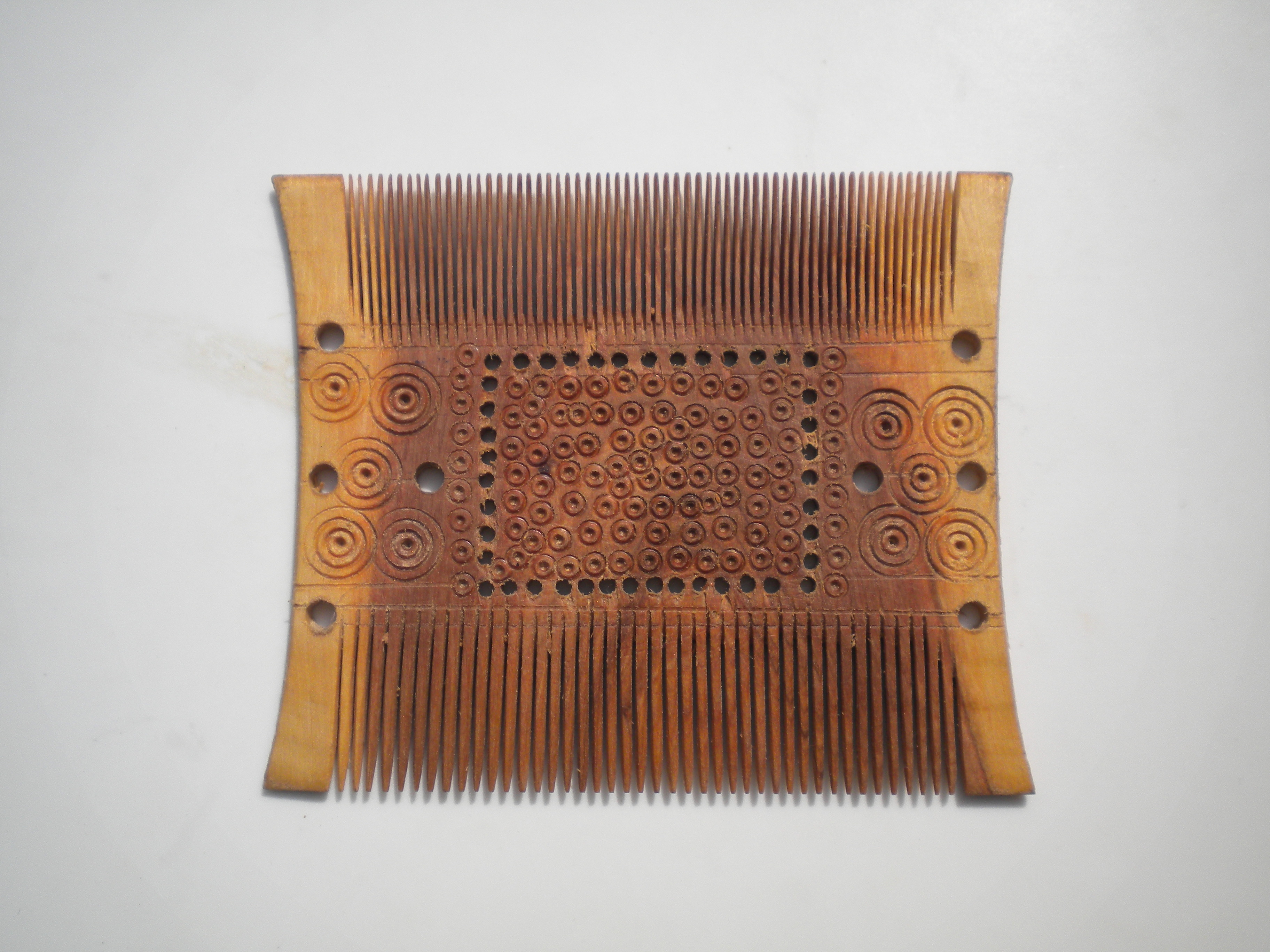 Wooden Punjabi Comb